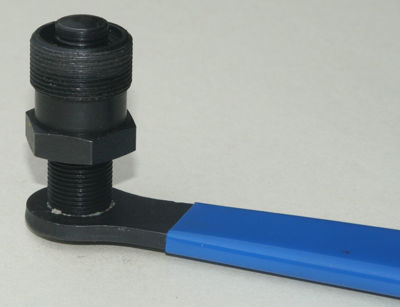 crank extractor ready for attachment